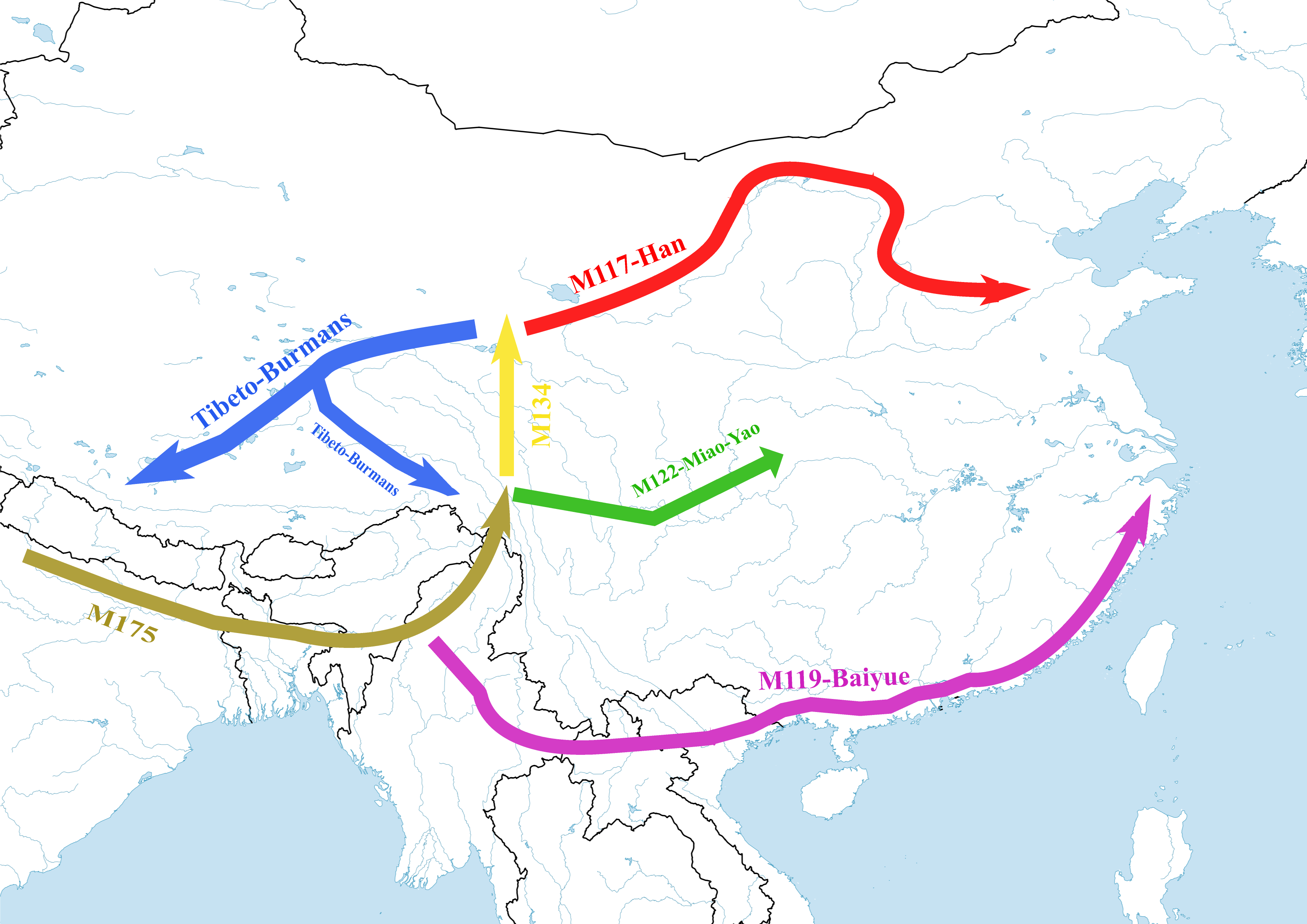 Path of Migration and Division of Some of the Major Ethnicities with their genetically distinctive markers. Source: Edmondson, Jerold A.; Gregerson, Kenneth J. (2007). The Languages of Vietnam: Mosaics and Expansions. Language and Linguistics Compass 1/6 (2007): 727–749, 10.1111/j.1749-818x.2007.00033.x. p. 732. From: Su, Bing, Junhua Xiao, Peter Underhill, Ranjan Deka, Weiling Zhang, Joshua Akey, Wei Huang, Di Shen, Daru Lu, Jingchun Luo, Jiayou Chu, Jiazhen Tan, Peidong Shen, Ron Davis, Luca Cavalli-Sforza, Ranajit Chakraborty, Momiao Xiong, Ruofu Du, Peter Oefner, Zhu Chen, and Li Jin (1999). Human Y-chromosome evidence for a northward migration of modern humans into Eastern Asia during the Last Ice Age. American Journal of Human Genetics 65.1718–24. Li Hui. 2002a. Preliminary analyses of the genetic structure of Daic populations. Proceedings of The International Symposium on Anthropological Studies, Anthropological Studies at Fudan University, Shanghai: Fudan University, pp. 89–94. Li Hui. 2002b. Two branches in the traces of the structure of the Baiyue heritage. [Guangxi Ethnology Research]. 70(4). pp. 26–31. Li Hui. 2004. The pathway of the two types of Homo sapiens sapiens to the Far East. Journal of National Dr. Sun Yat-sen Memorial Hall. pp. 164–180.